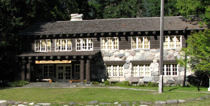 The Administrative Building at Longmire, Mount Rainier National Park, Washington, United States, a classic example of National Park Rustic architecture. Both the Longmire Buildings and Longmire Historic District are listed on the National Register of Historic Places.